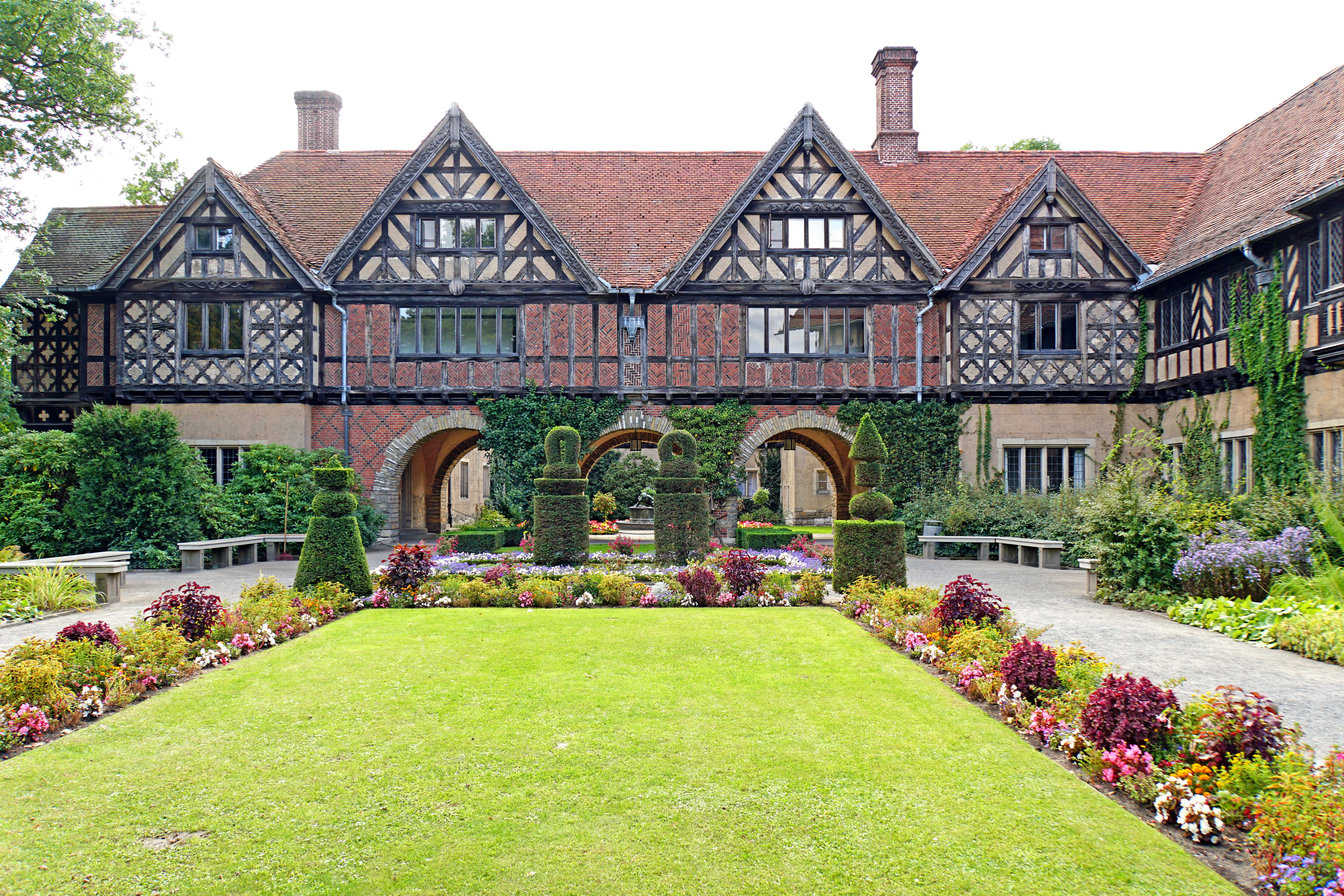 PLEASE, NO invitations or self promotions, THEY WILL BE DELETED. My photos are FREE to use, just give me credit and it would be nice if you let me know, thanks. The Potsdam Conference was held at Cecilienhof, the home of Crown Prince Wilhelm, in Potsdam, occupied Germany, from 17 July to 2 August 1945. Stalin, Churchill, and Truman gathered to decide how to administer the defeated Nazi Germany, which had agreed to unconditional surrender nine weeks earlier, on 8 May (V-E Day. The goals of the conference also included the establishment of post-war order, peace treaty issues, and countering the effects of the war. In addition to the Potsdam Agreement, on 26 July, Churchill, Truman, and Chiang Kai-shek, Chairman of the Nationalist Government of China (the Soviet Union was not at war with Japan) issued the Potsdam Declaration which outlined the terms of surrender for Japan during World War II in Asia.